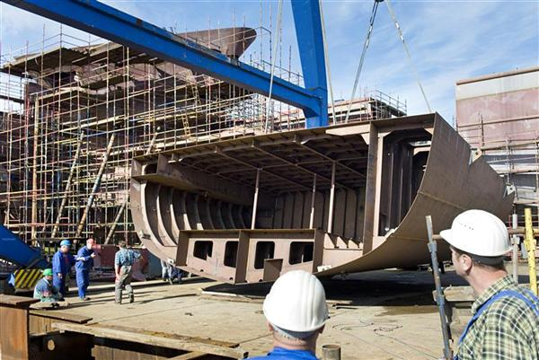 Works on RAINBOW WARRIOR III project at Maritim Shipyard in Gdansk, Poland. The hull is composed of seven sections, which were prepared individually in the shipbuilding hall. All components are built upside down and must be turned before being moved to the hull.